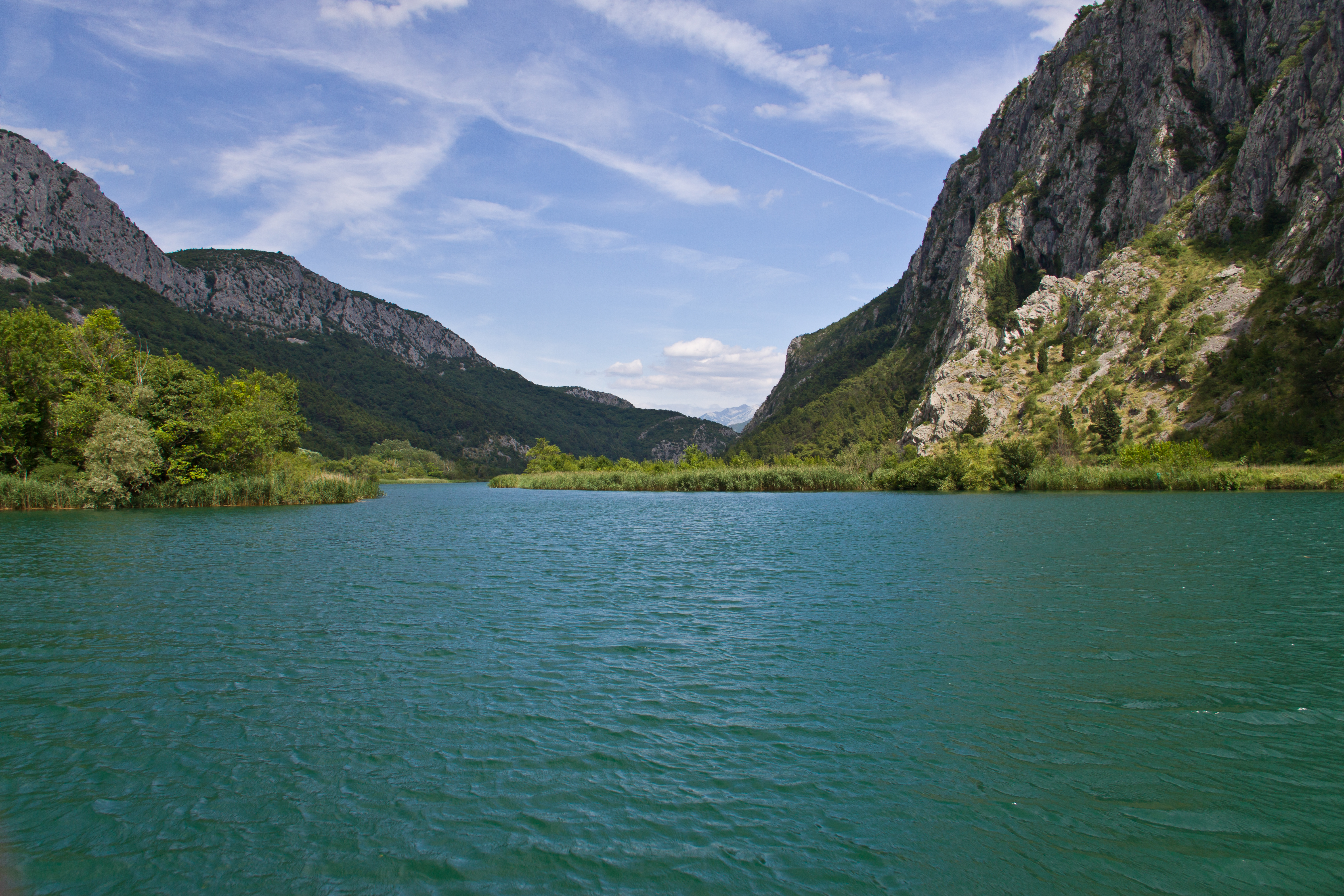 Cetina river, Omiš, Croatia.